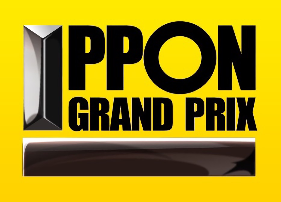 The photo has been taken in March 2018